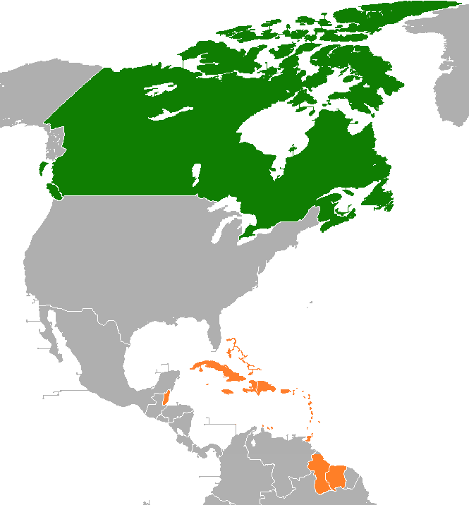 Location of Canada and the Caribbean